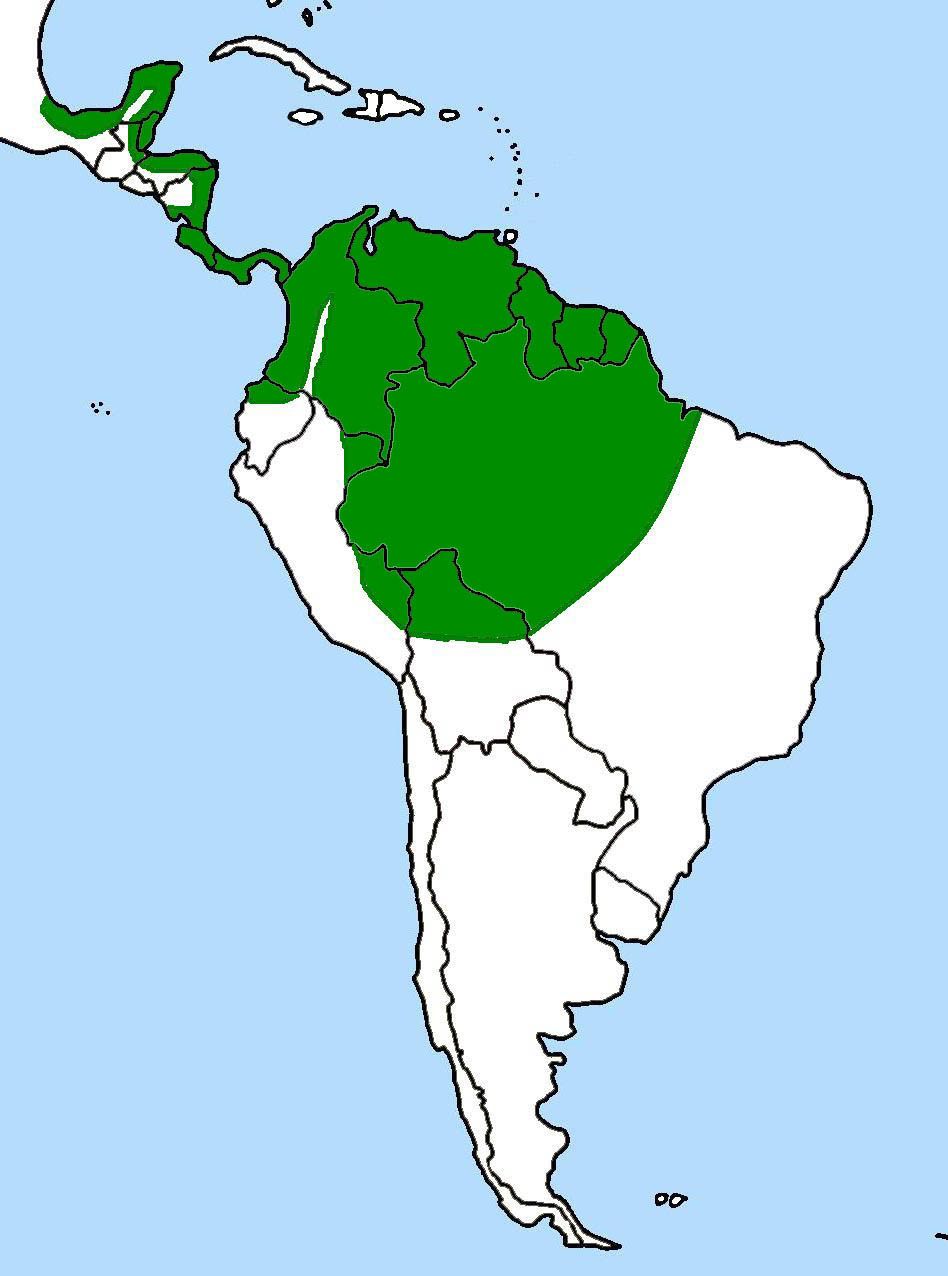 Agami Heron distribution map.